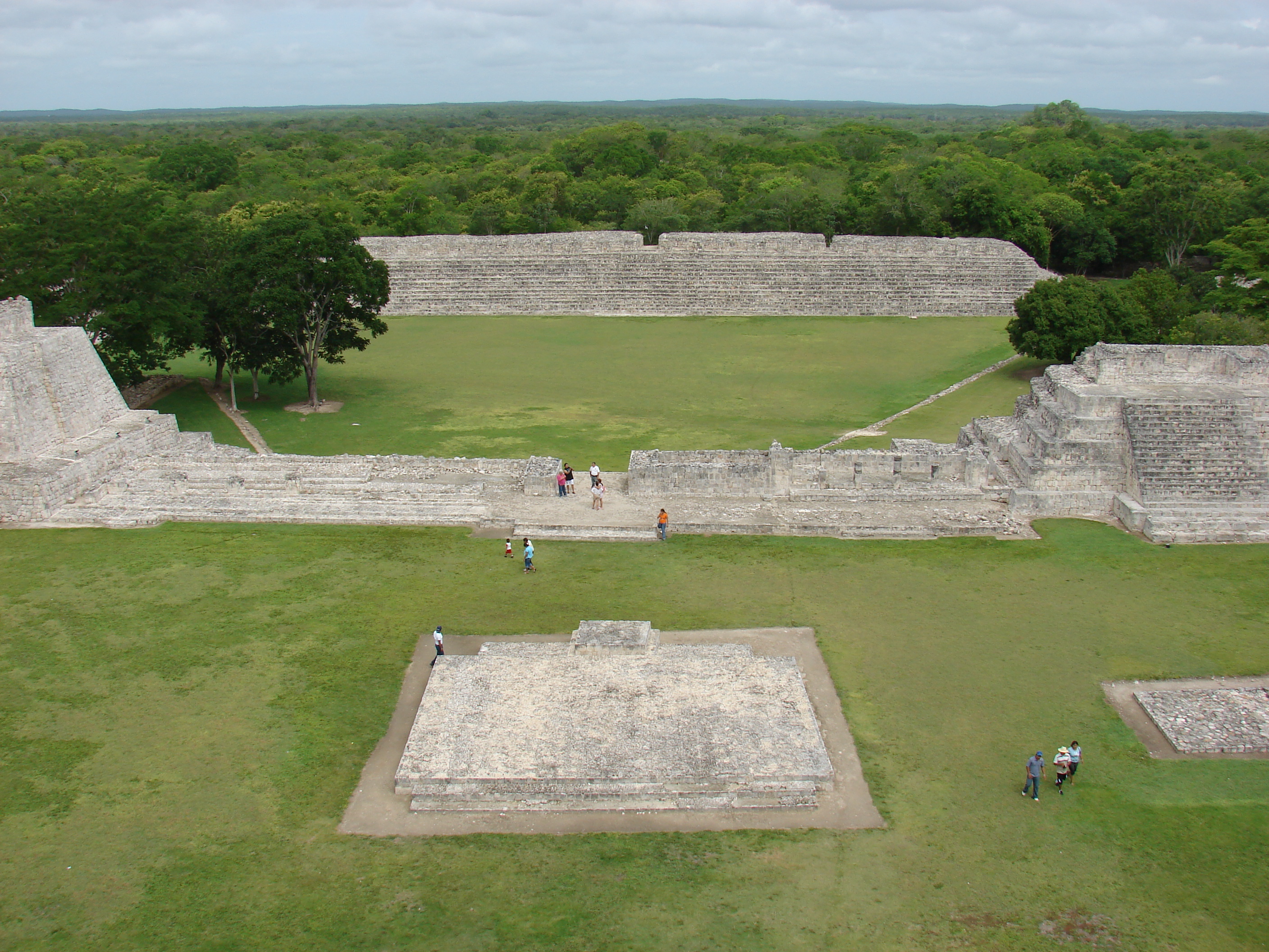 Plaza of Edzna see from the Five floors Pyramid.